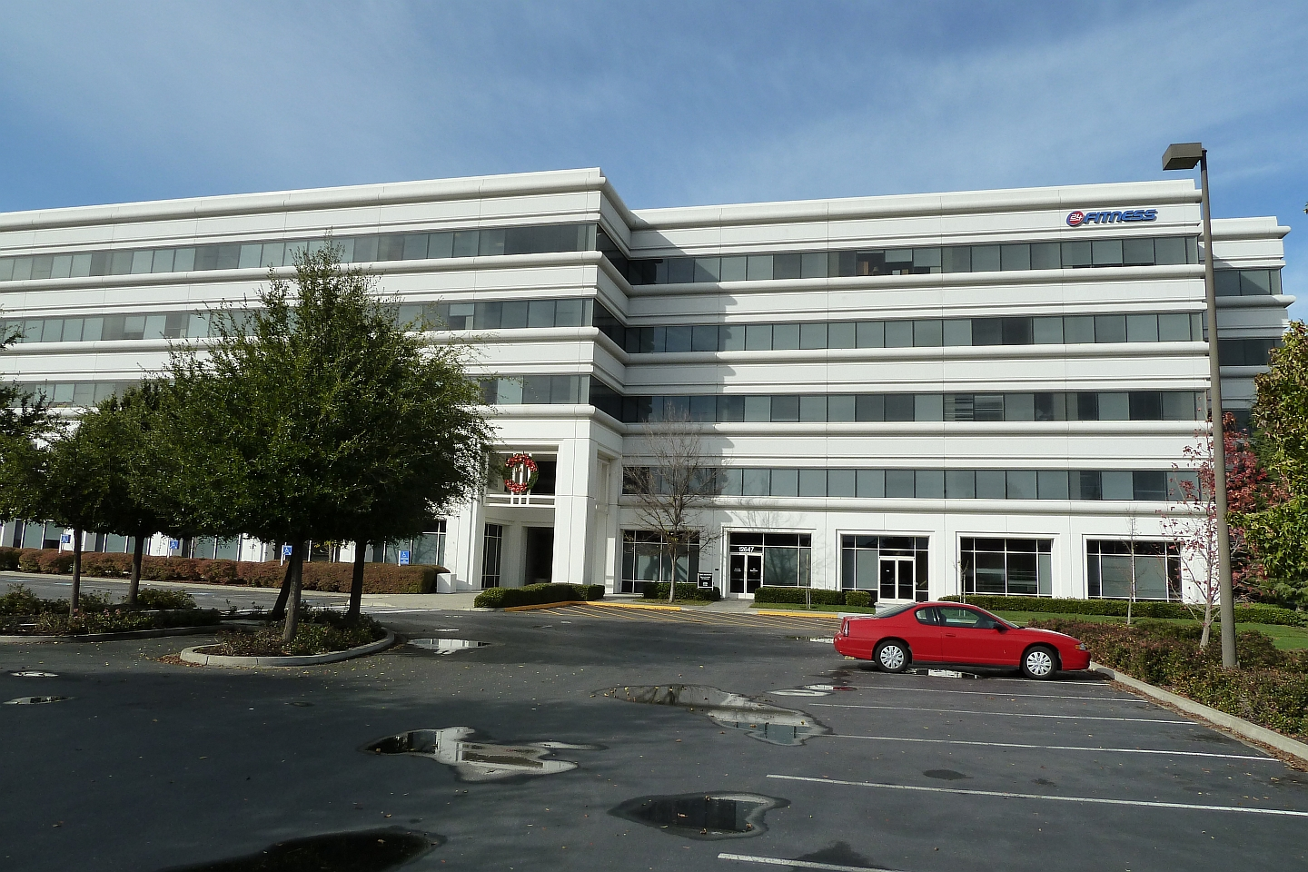 "24 Hour Fitness" global headquarters in San Ramon, USA (entrance decorated for Christmas holidays).